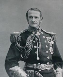 Admiral of the Fleet Sir Algernon McLennan Lyons GCB (26 August 1833 – 9 February 1908) was a British naval officer.